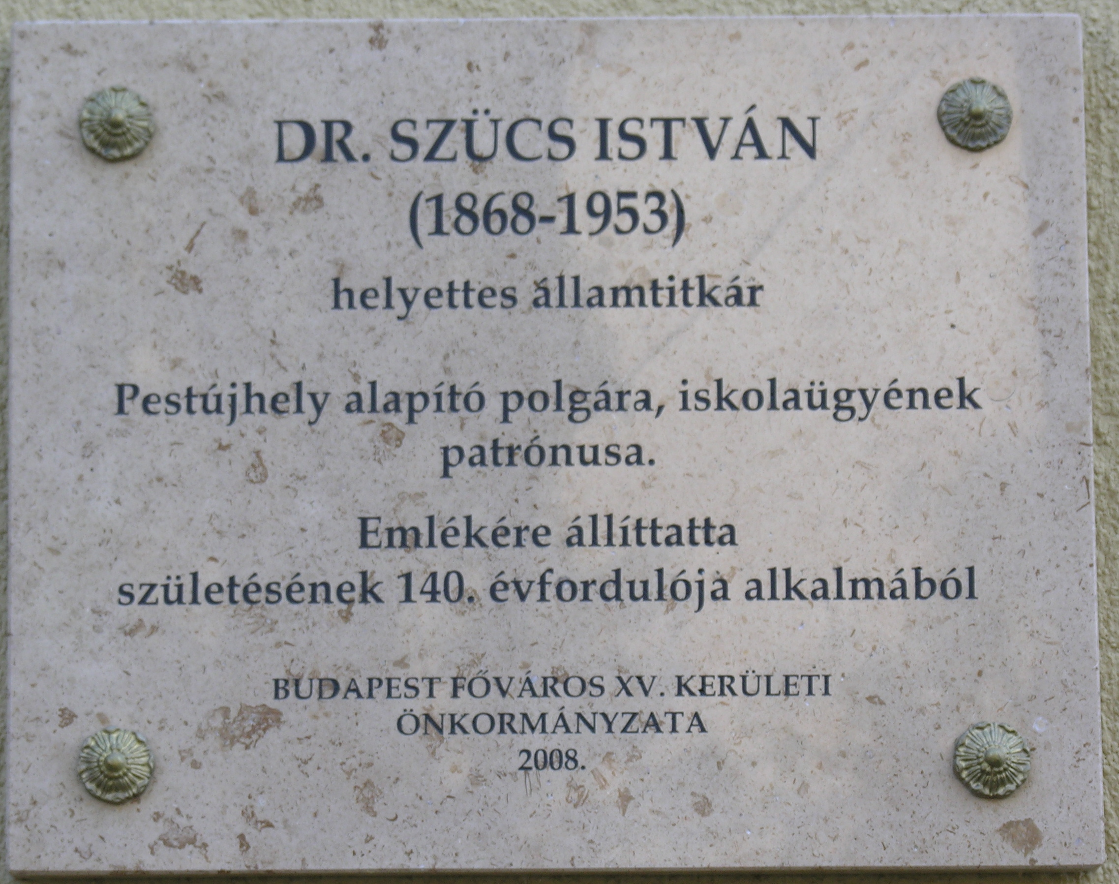 Commemorative plaque of István Szücs, Budapest District XV, Pestújhelyi Street No 38